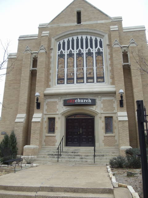 Central Congregational Church